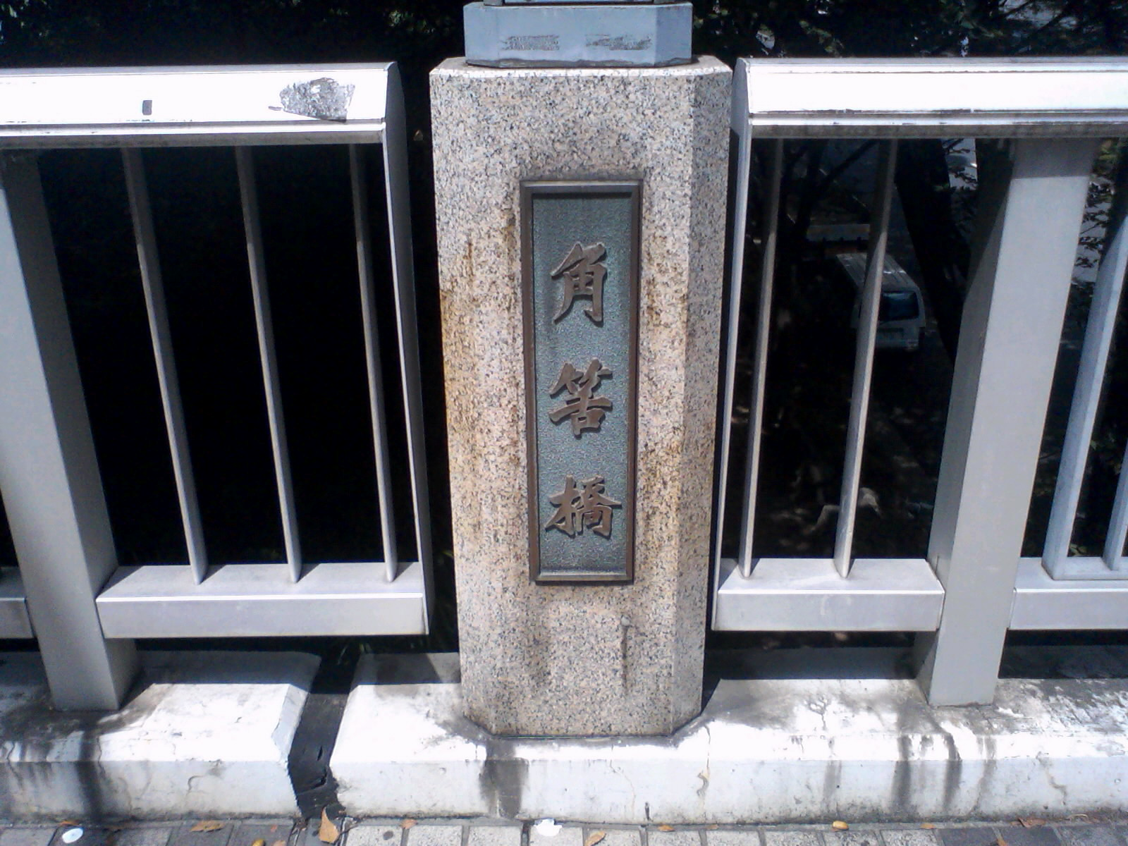 The nameplate of Tsunohazu bridge